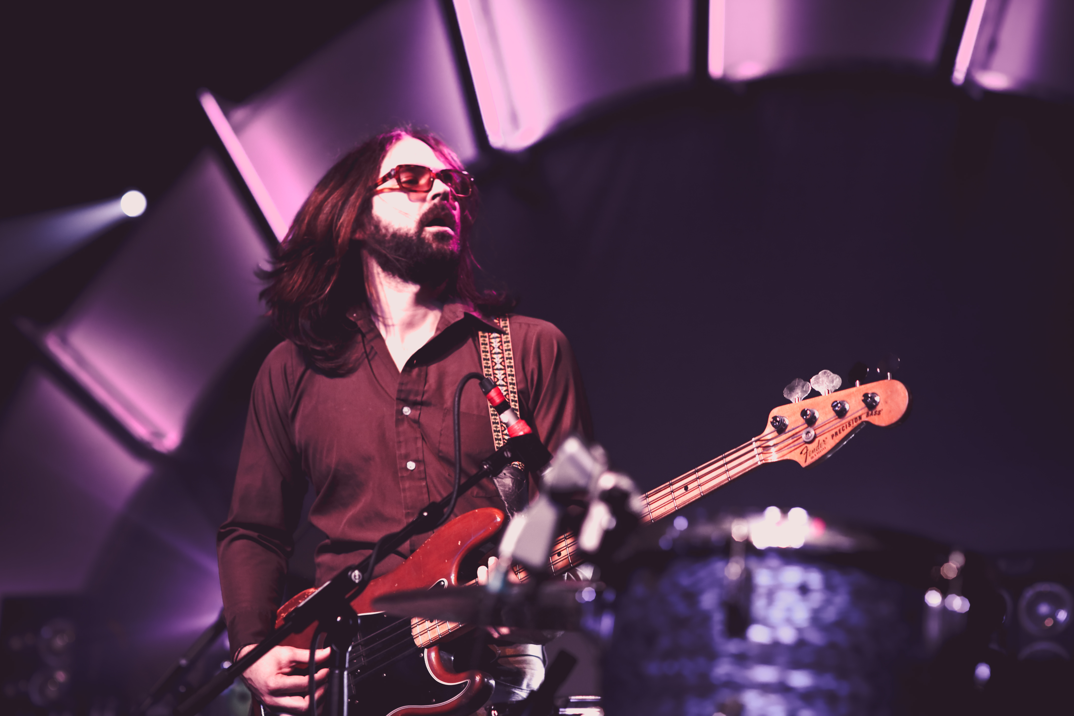 Roy Mitchell-Cárdenas, bassist for MUTEMATH, at Roseland Theater in Portland, OR on 2009-10-06.